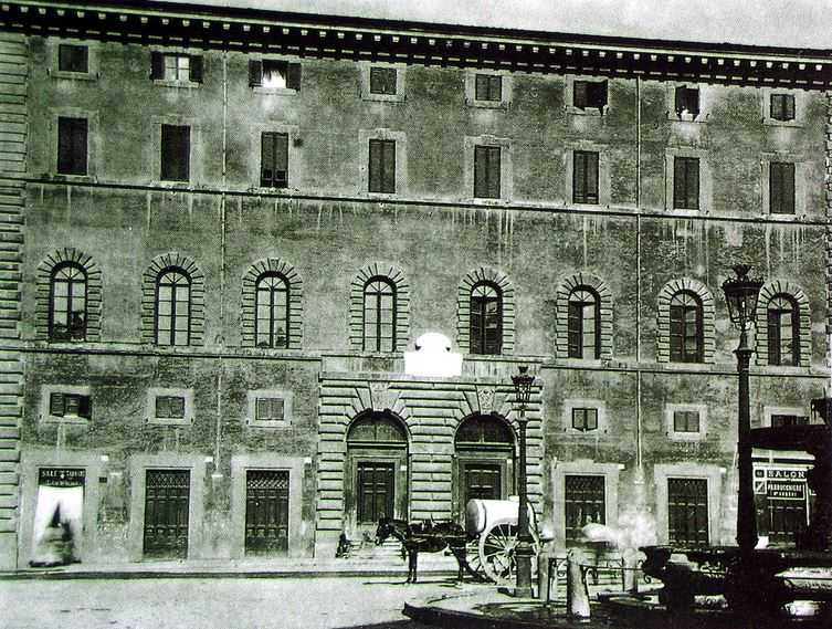 Palazzo dei Convertendi at Piazza Scossacavalli, Rome, about 1920